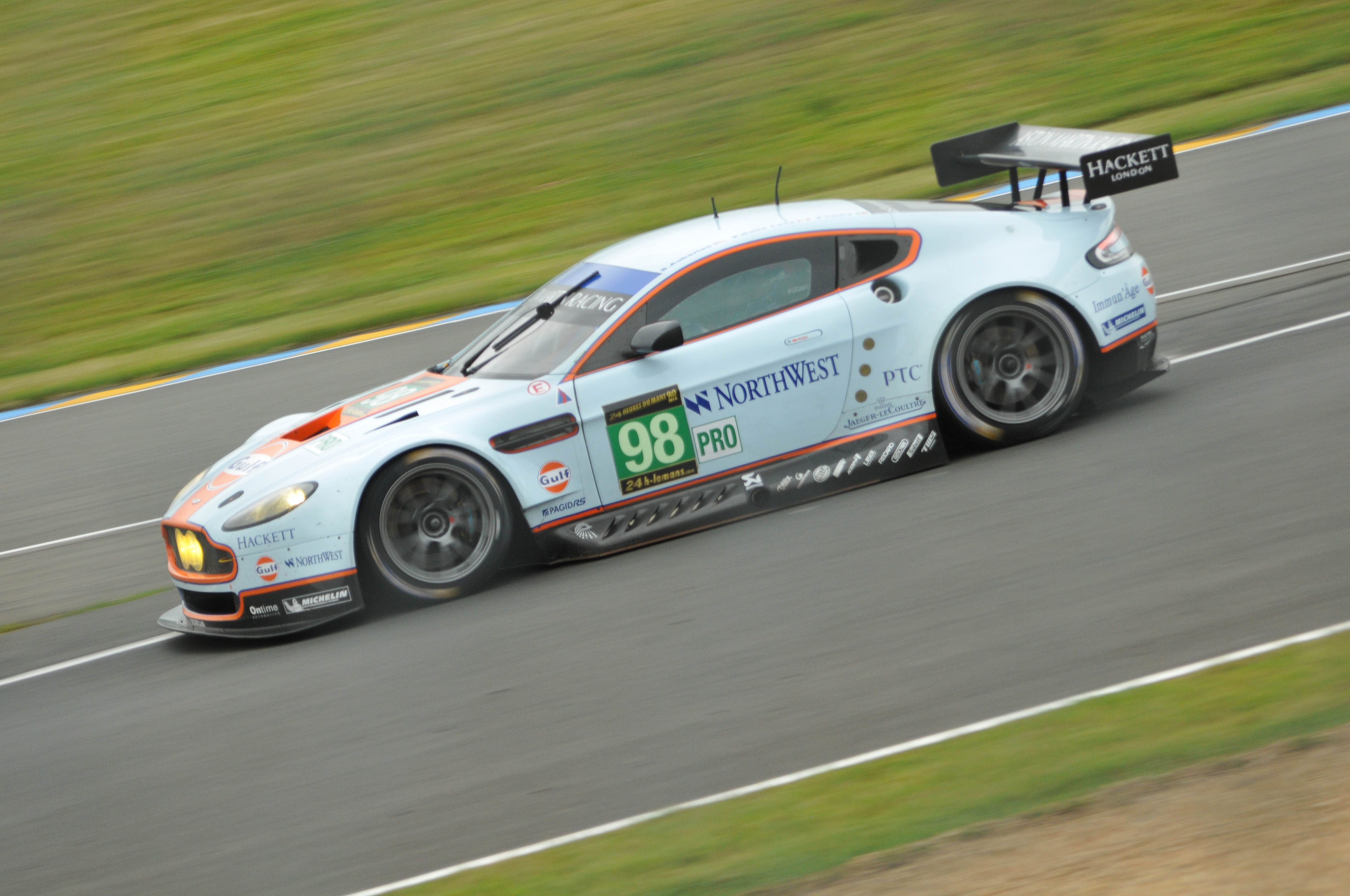 Le Mans 2013 (197 of 631)